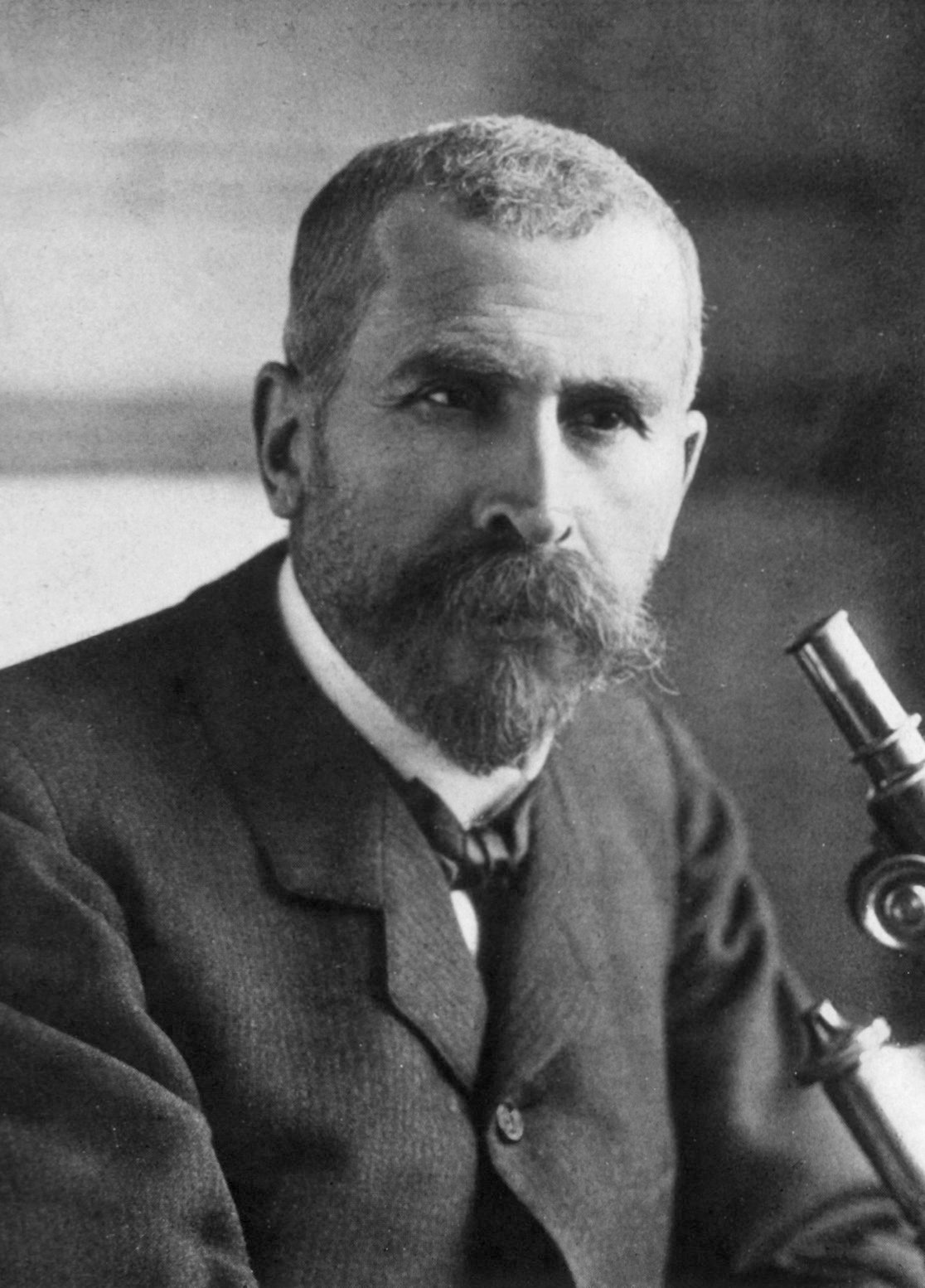 Roux, Pierre Paul Emile 1853-1933